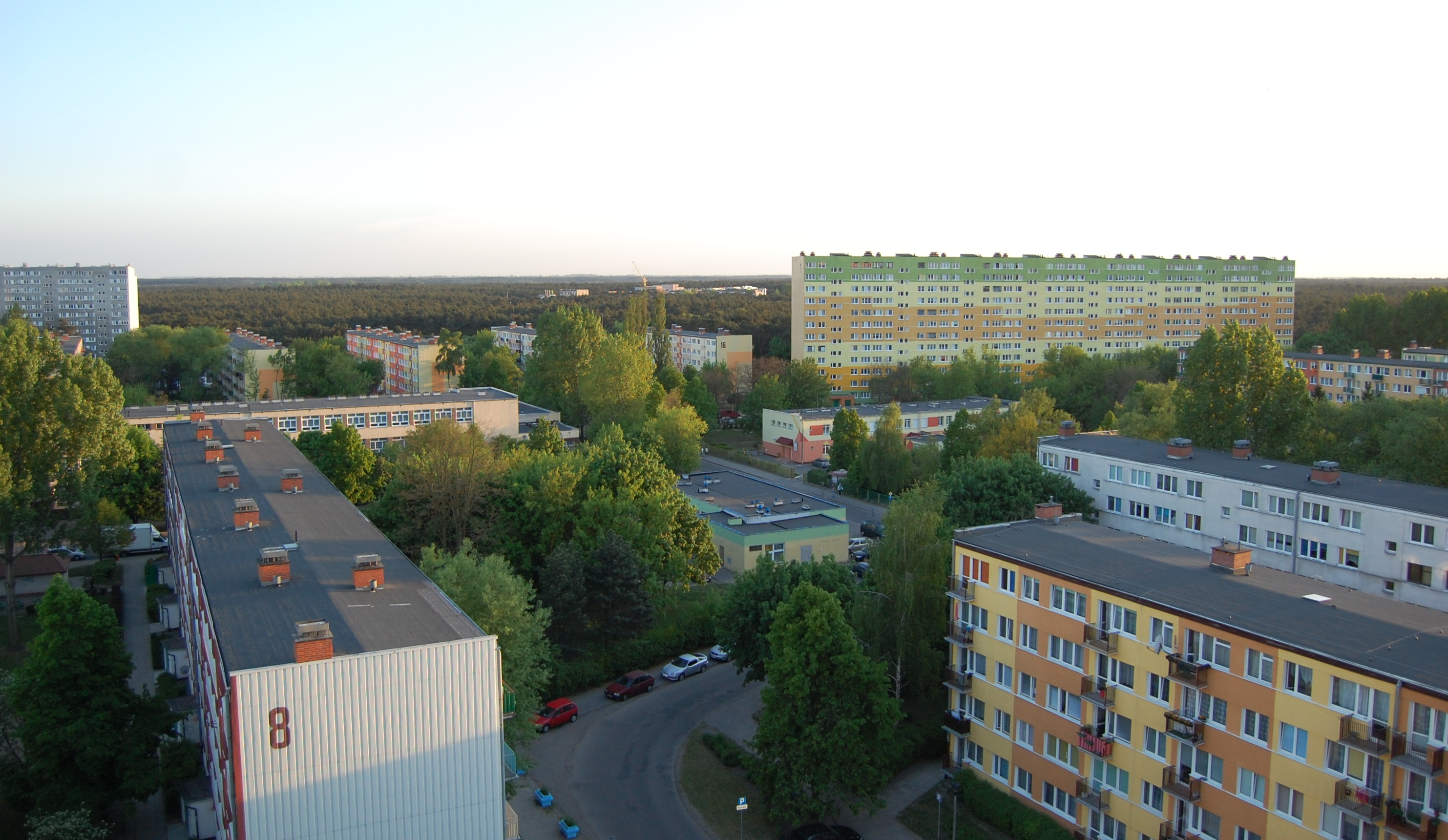 Zazamcze, Włocławek, Poland